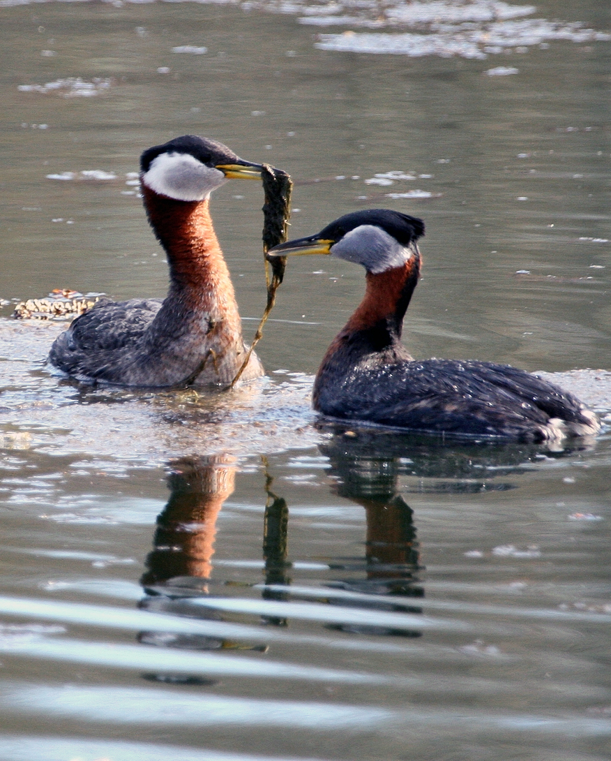 Red-necked Grebe Podiceps grisegena holboelii courtship, taken at Westchester Lagoon, Anchorage, Alaska.